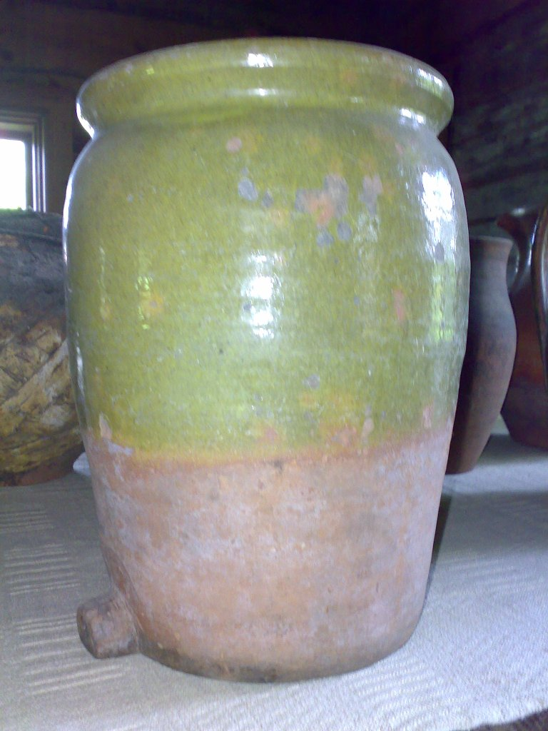 Latgale pottery.